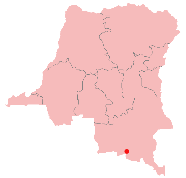 Kolwezi, Democratic Republic of the Congo Location Map; created with the GIMP. Made by User:Acntx.